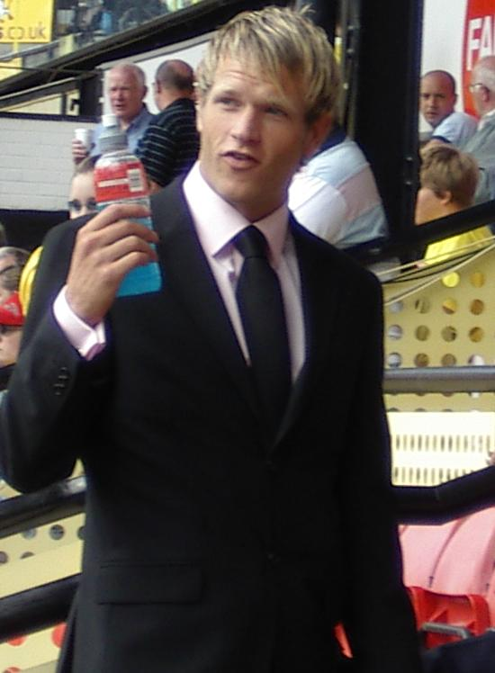 A photo of Jay Demerit taken at Watford vs Burnley on 20th August 2005